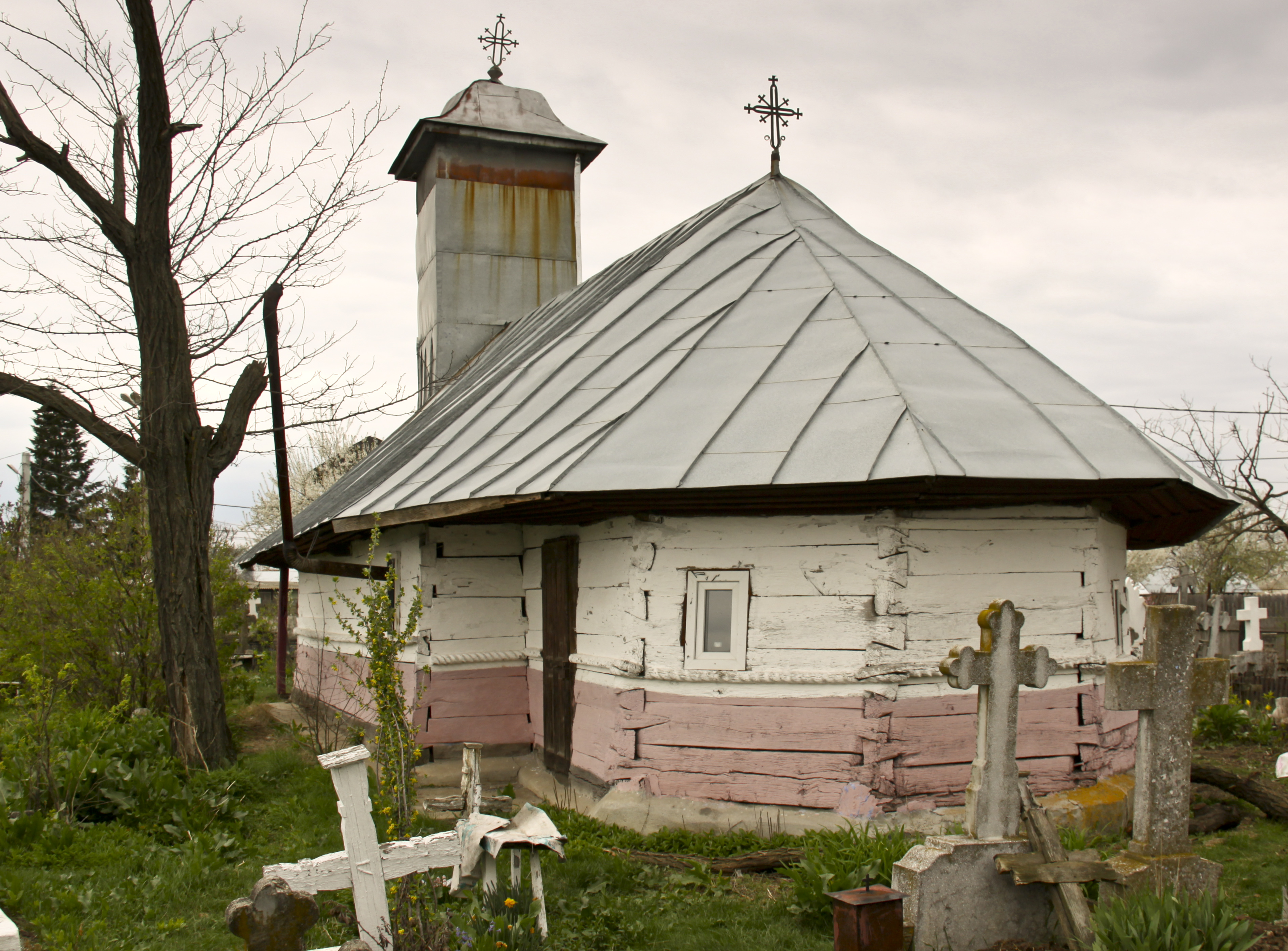 Buteşti, Teleorman county, Romani: the wooden church.